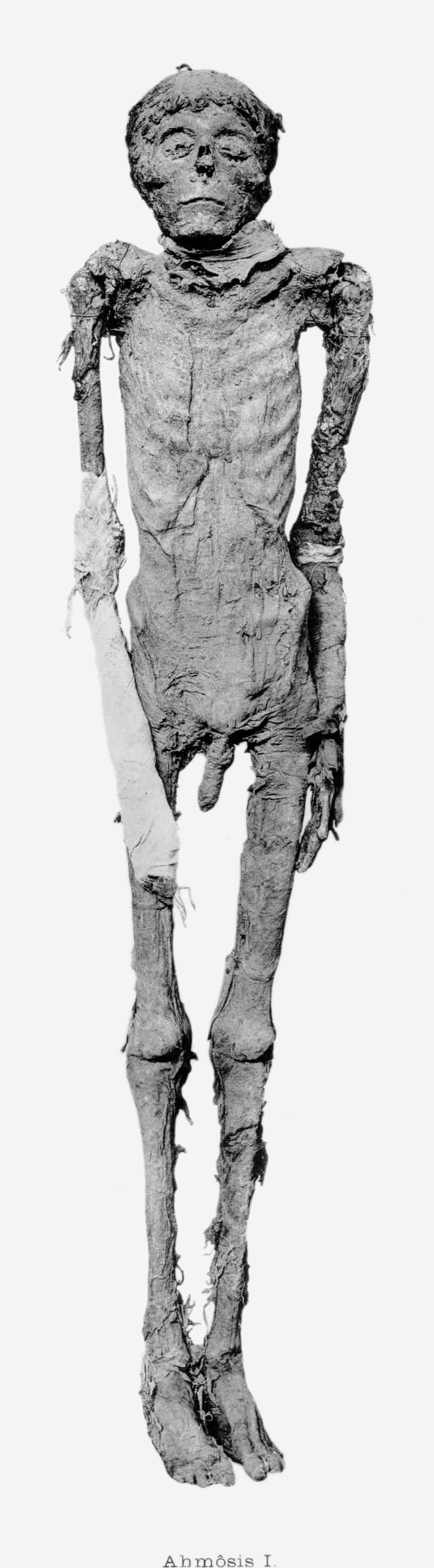 Mummy of parapoh Ahmose I.